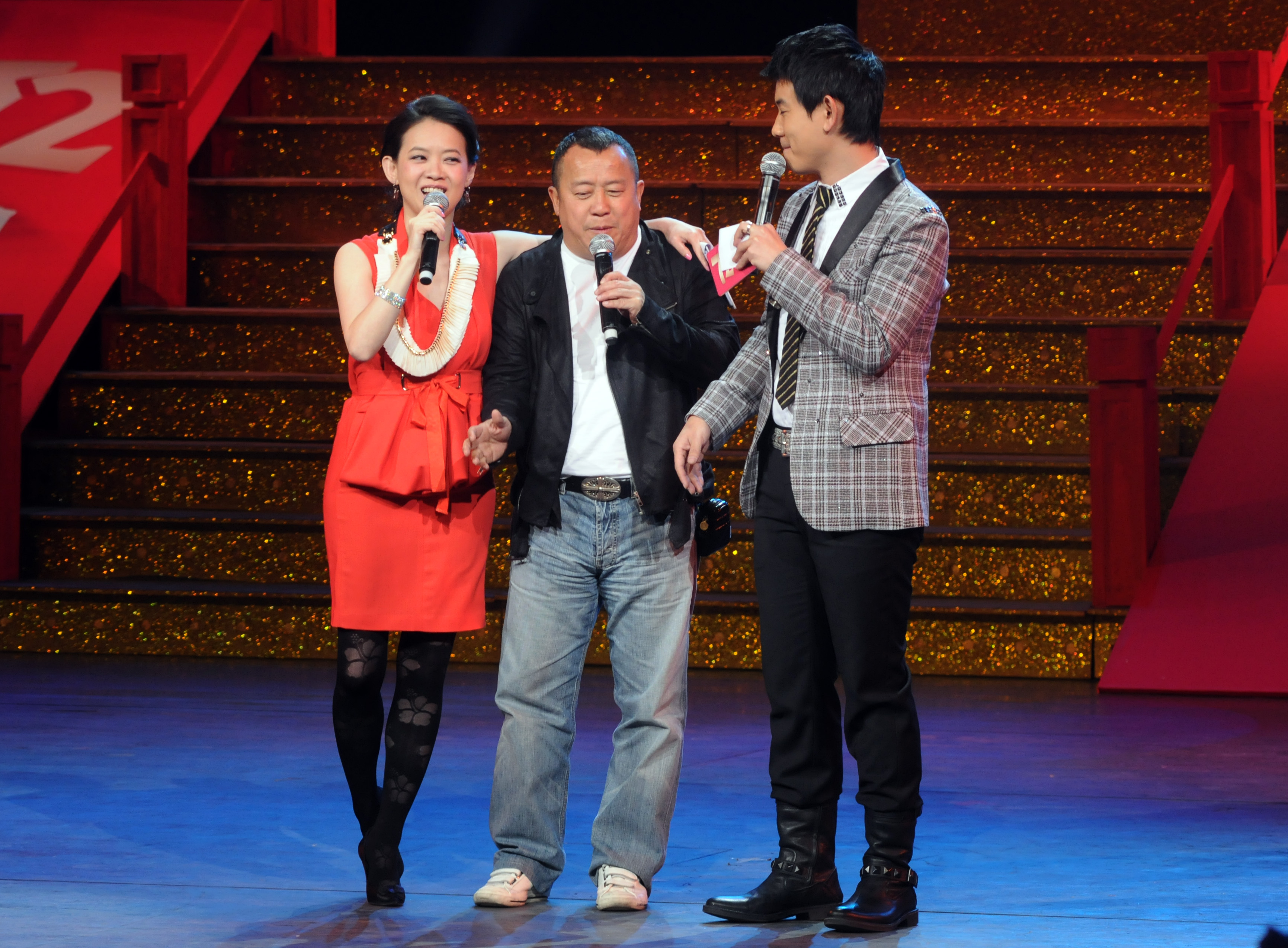 Bowie Tsang and Eric Tsang at the premiere of "72 Tenants of Prosperity" in Nanjing.